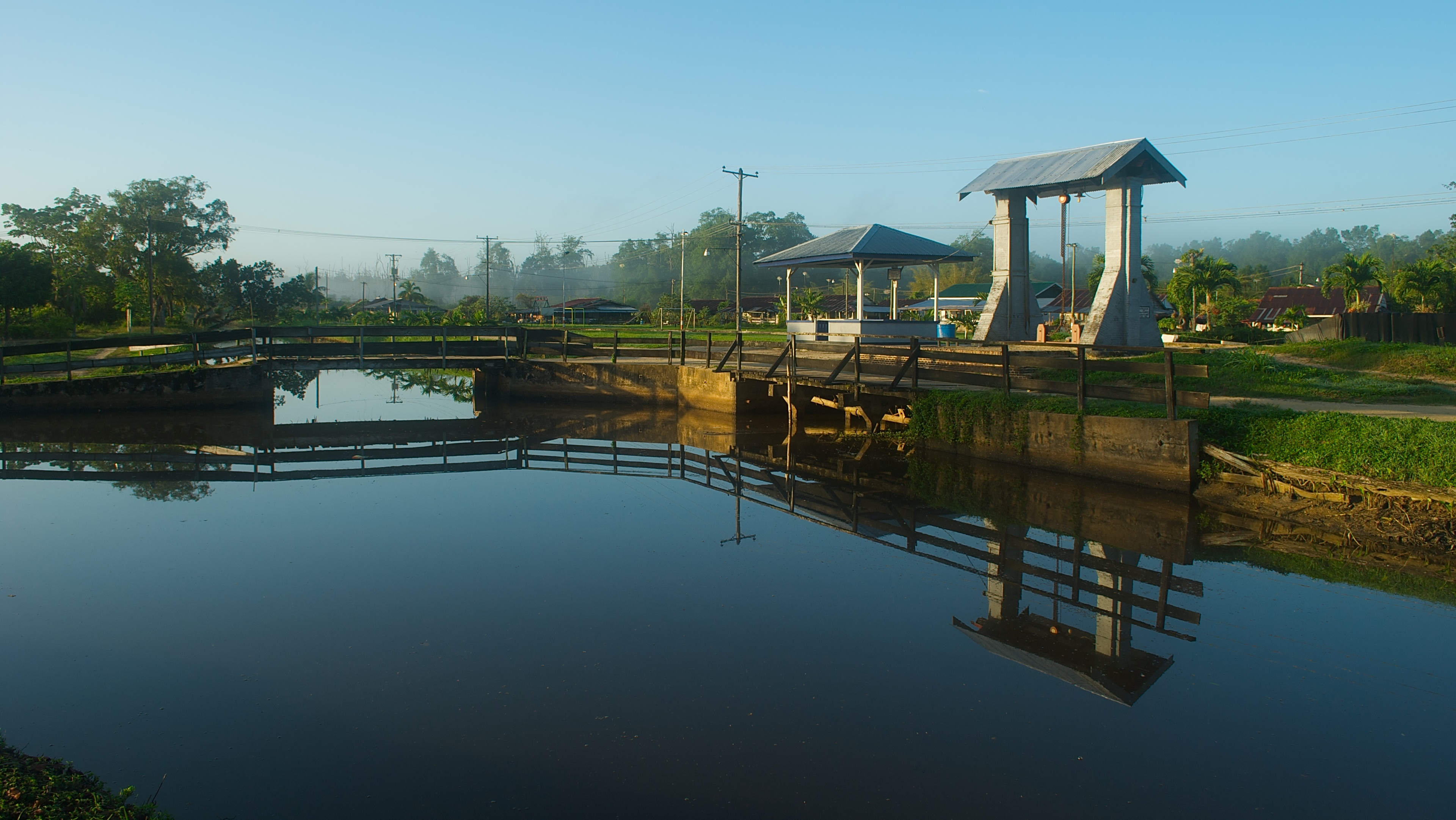 Alliance, Plantagion in Commewijne, Suriname.